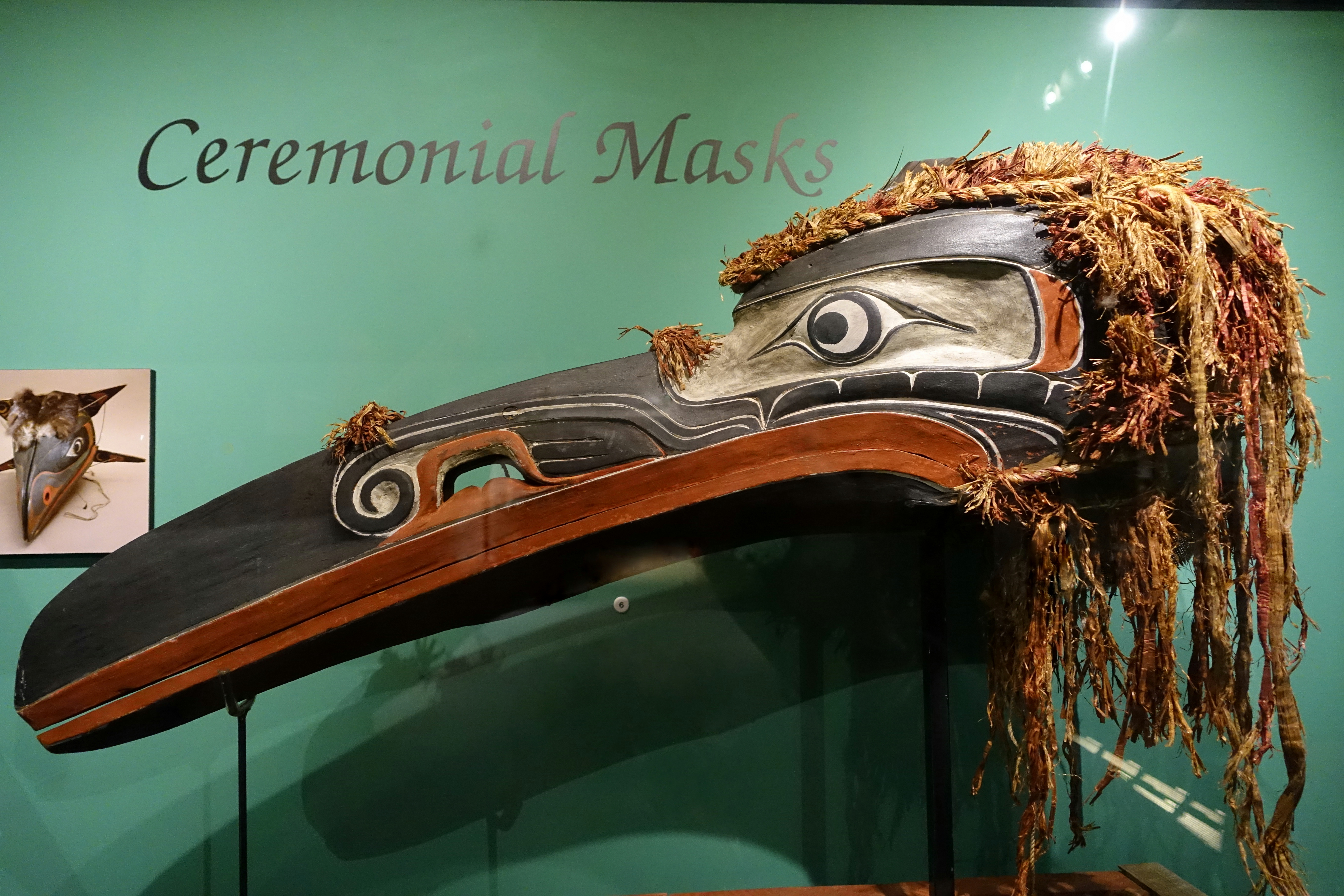 Exhibit from the Native American Collection, Peabody Museum, Harvard University, Cambridge, Massachusetts, USA. Photography was permitted without restriction; exhibit is old enough so that it is in the public domain.